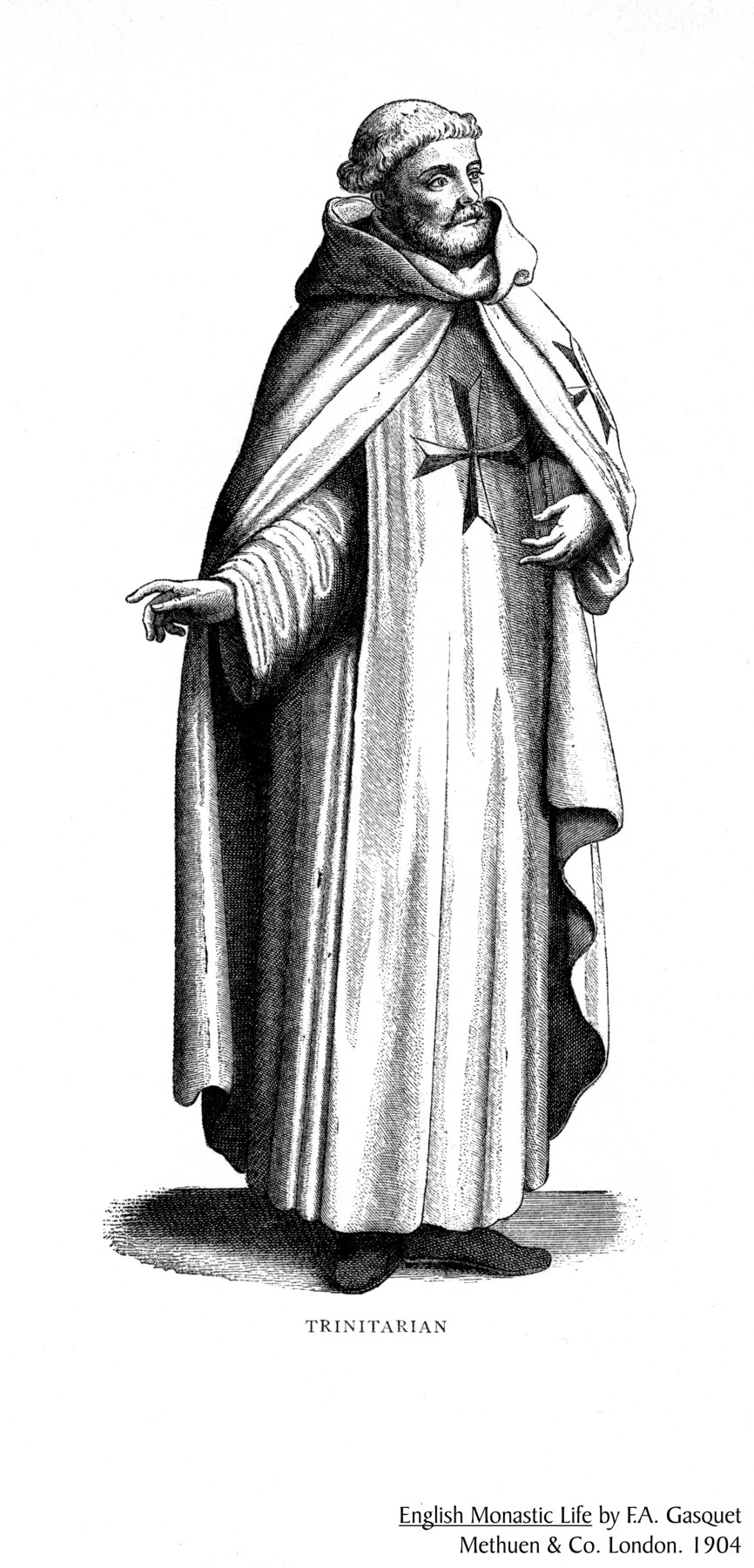 Published in London